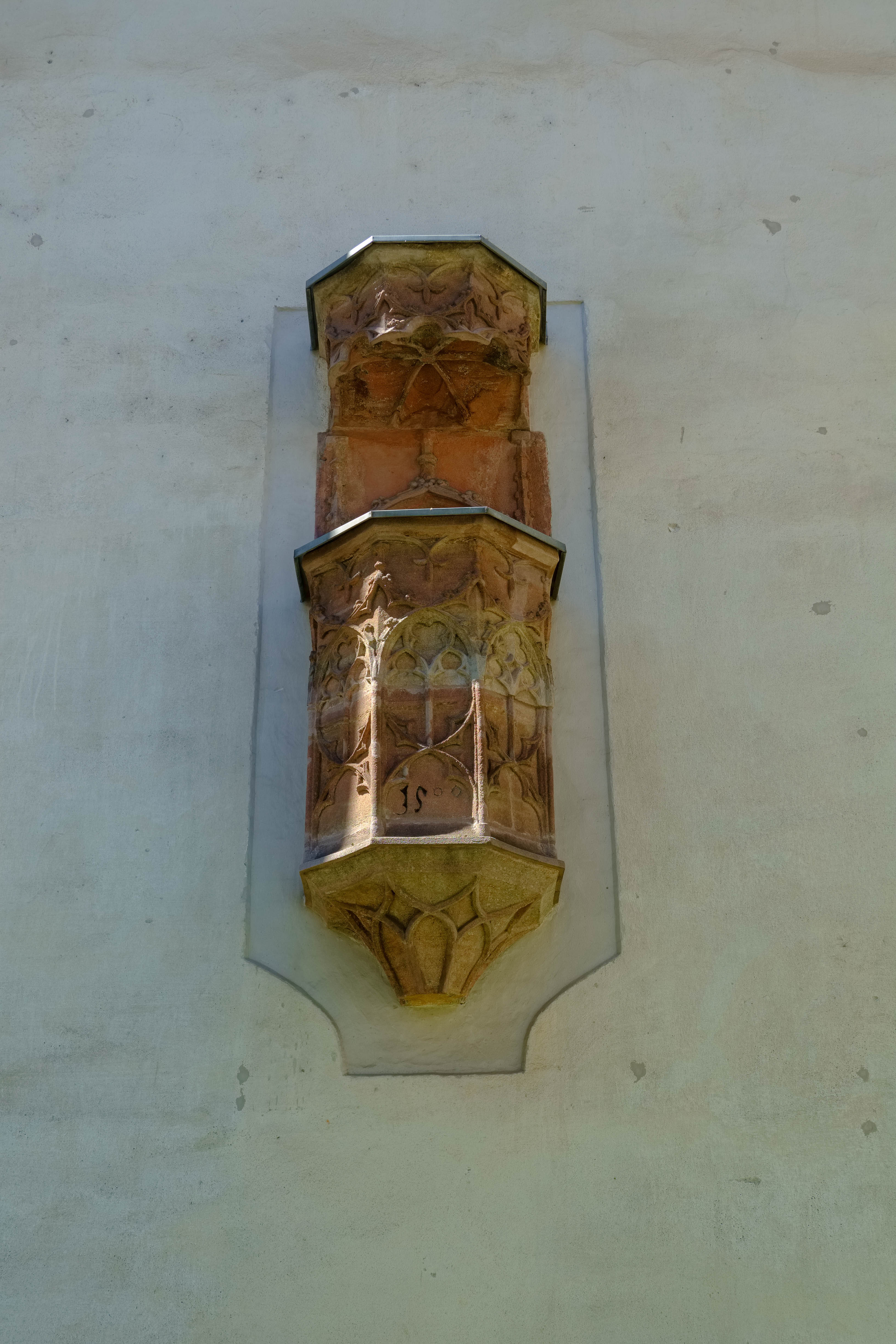 Trinitatiskirche (Holy Trinity Church) in Gera, Germany